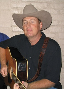 Scott Dudelson - Nashville 2004